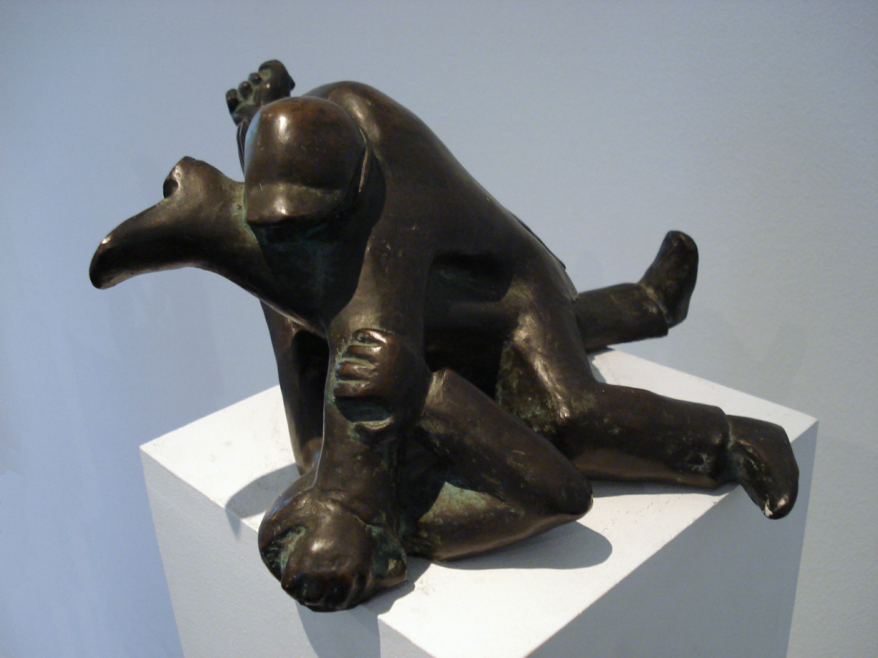 Fighters by Otto Gutfreund. 1924